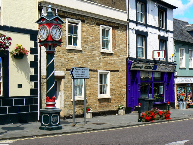 Shops and Queen Victoria memorial clock, High Street, Cricklade